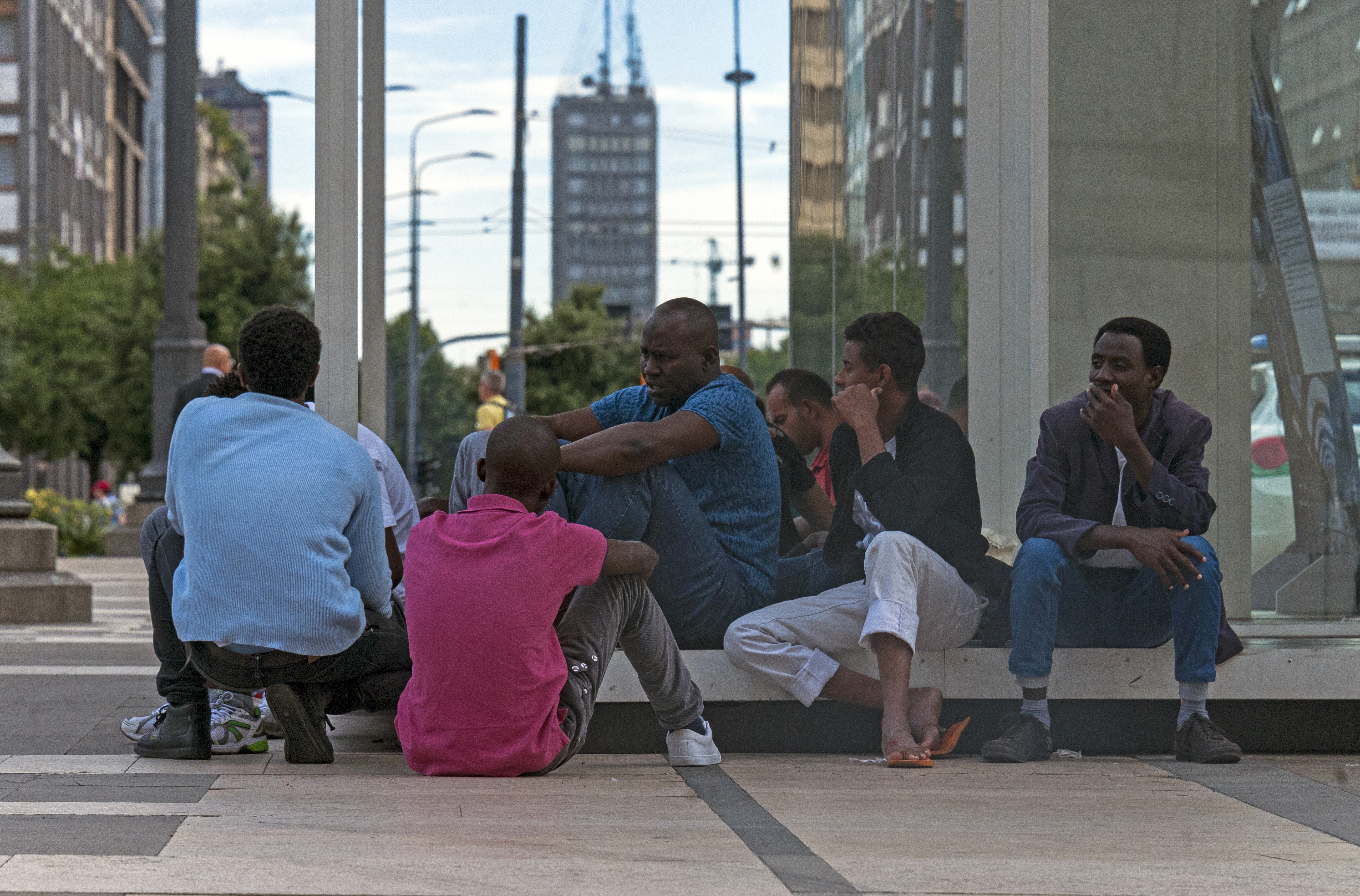 African immigrants hanging around with each other on the Piazza duca d'Aosta, Milan, at the end of the first day of summer.